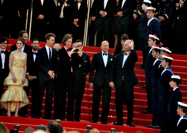 Cast and director of "Moonrise kingdom" at the Cannes film festival